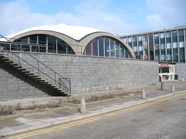 Fraser Noble Building Natural Philosophy department at Aberdeen University. Designed by Thomson, Taylor, Craig & Donald with distinctive dome above the slab walls.